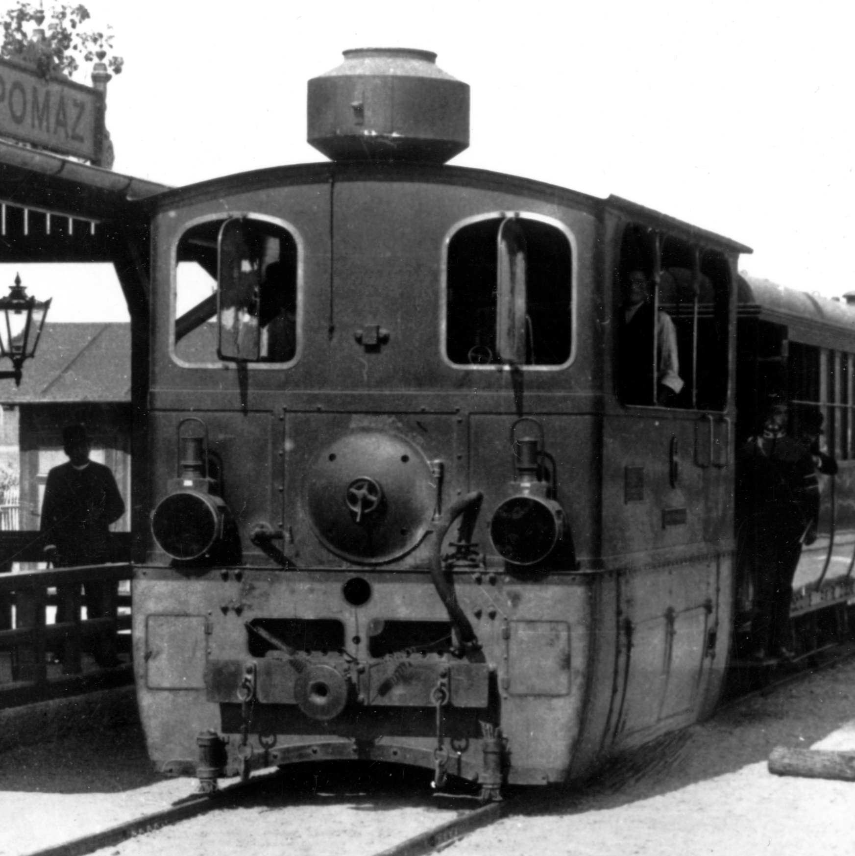 Locomotive nr. 6 of BHÉV; sold on 21 March 1916 to BHHÉV. Built in MÁVAG Budapest in 1888 with nr. 208.